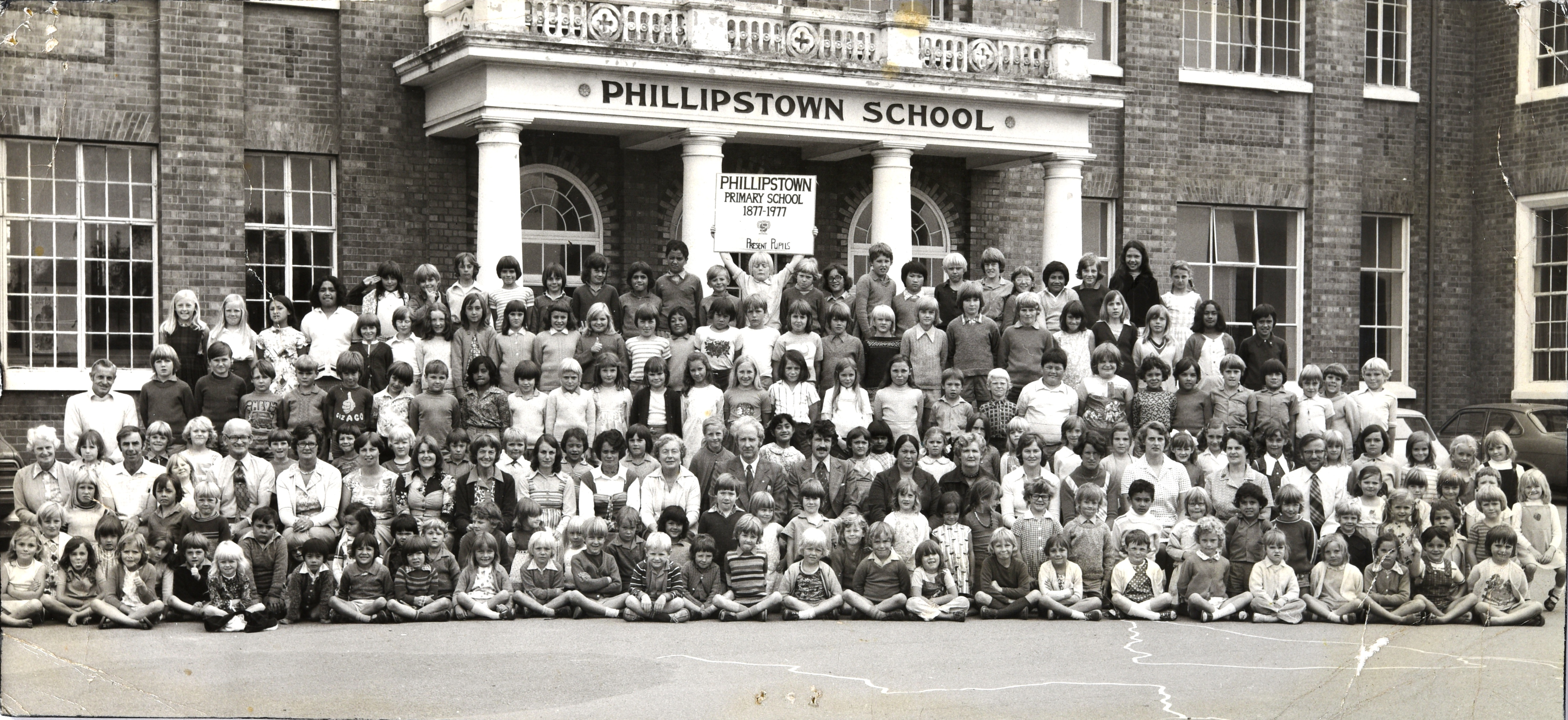 These images have been selected from a recent accession following the closure of Phillipstown Primary School, Christchurch. Phillipstown School was a state co-educational full primary school located in the Christchurch suburb of Phillipstown. It was founded in 1877 and operated until it was closed following post-earthquake restructure in February 2015. These photographs are part of a large collection of photographs received from the school, and show various school events. This image of the Phillipstown School Centenary was taken in front of the Phillipstown School building in 1977 shortly before it was demolished to make way for a new building. Archives New Zealand reference: Archives New Zealand Reference: AGLU 26124 CH1081 Box 13/e For further enquiries please Material from Archives New Zealand Te Rua Mahara o te Kāwanatanga